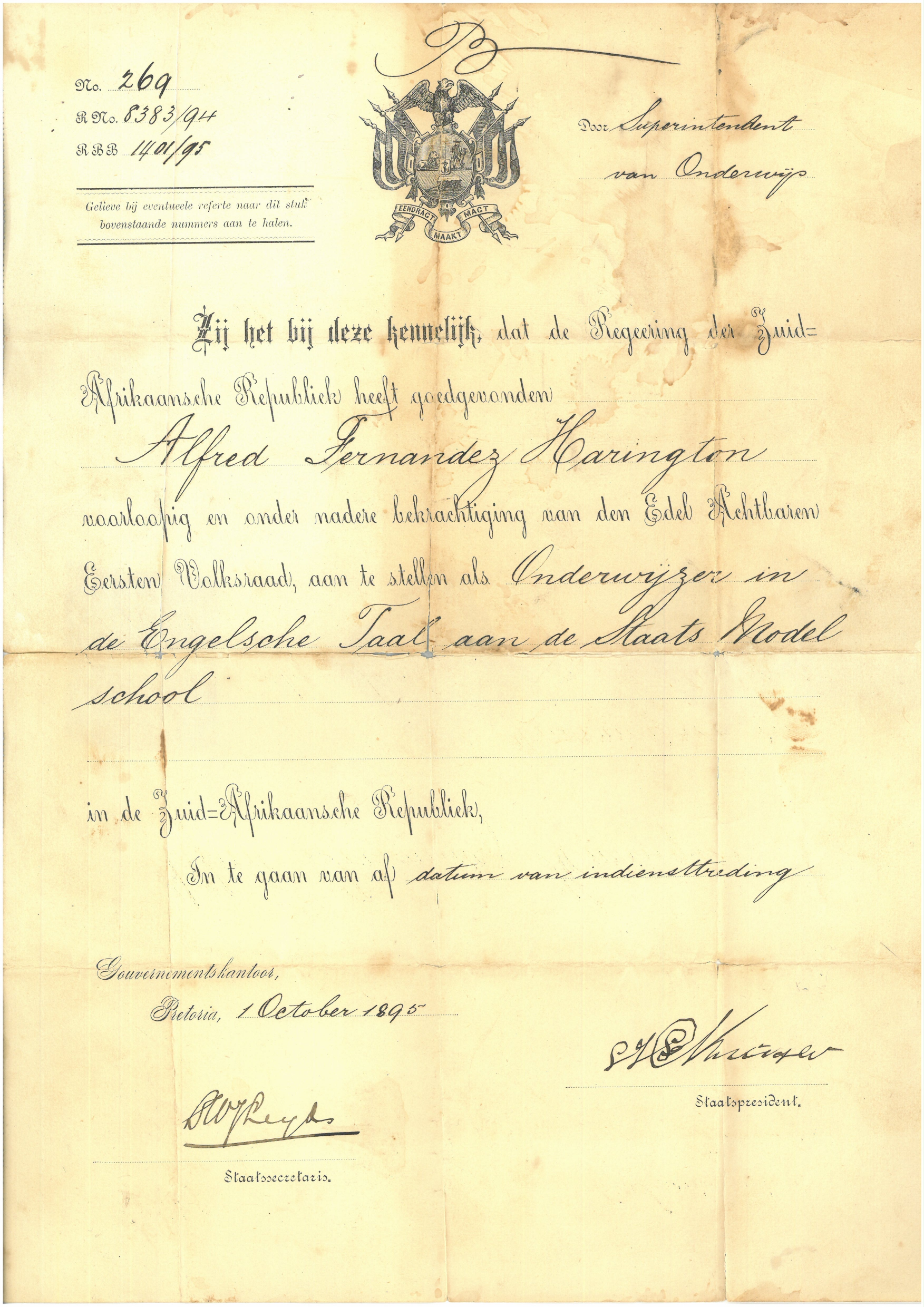 This document will help to more accurately record certain moments in history.